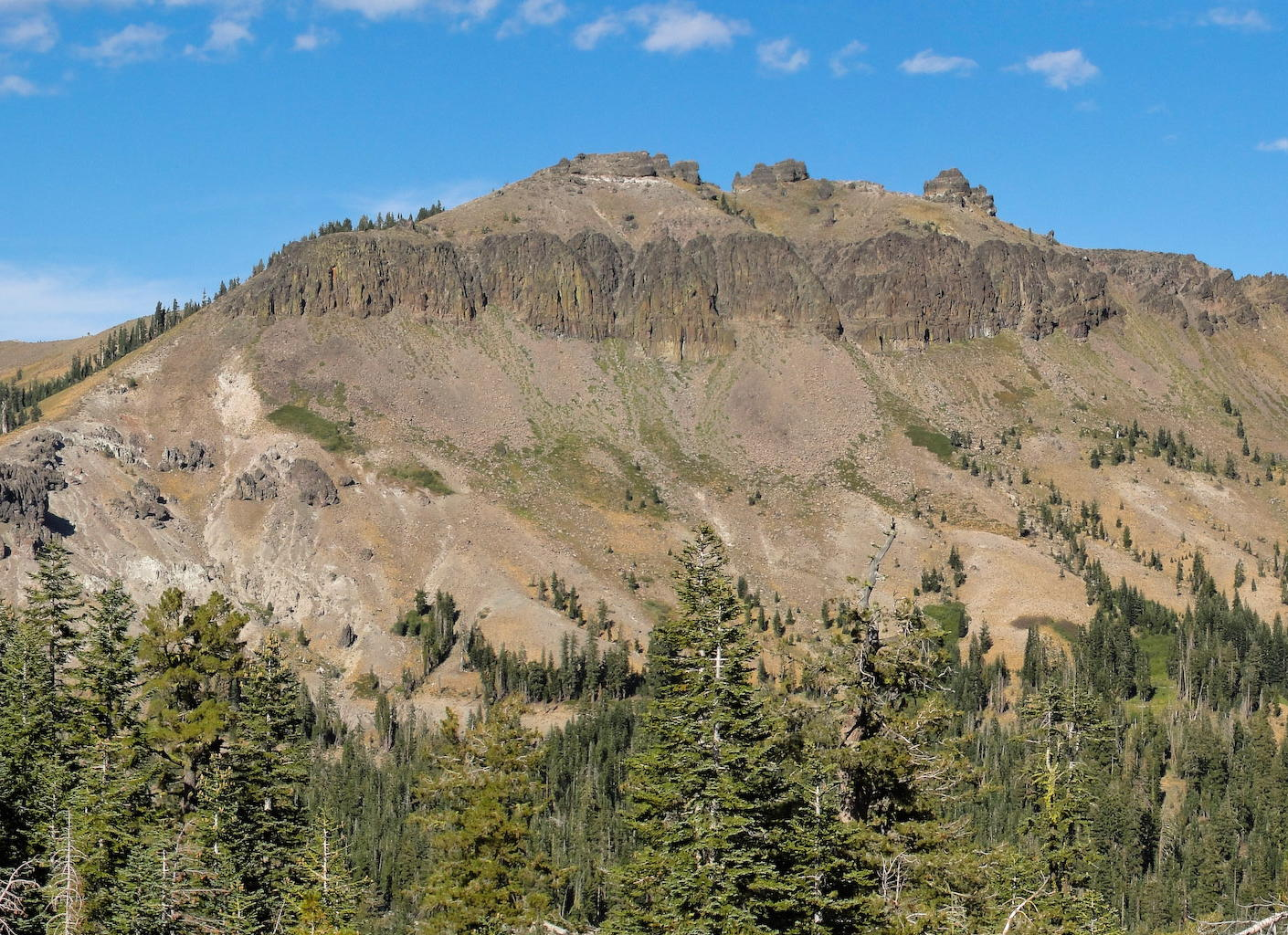 Photograph of Castle Peak in the Sierra Nevada taken from Andesite Peak